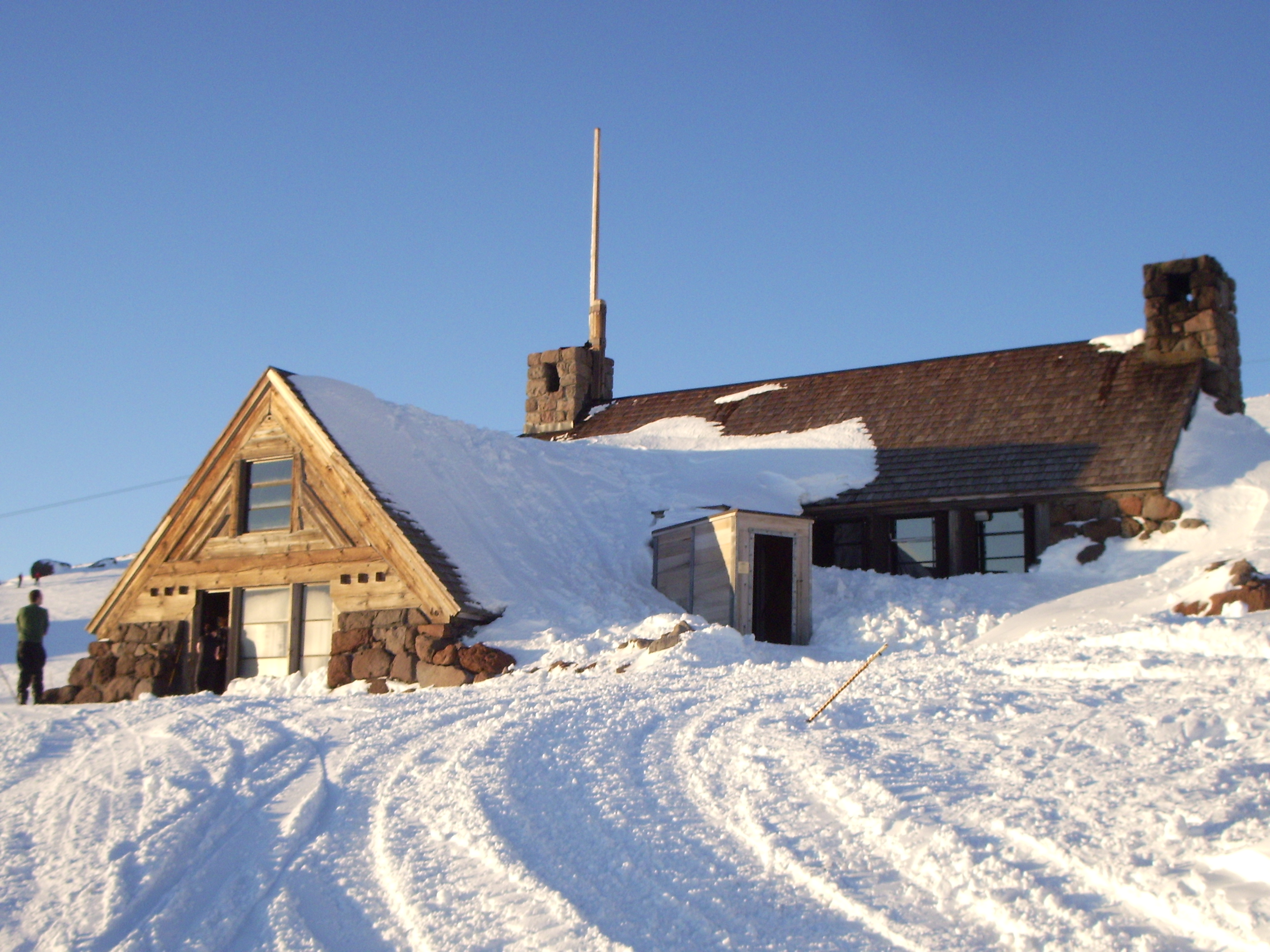 Front of Silcox Hut showing the entrance (through wood plank tunnel)